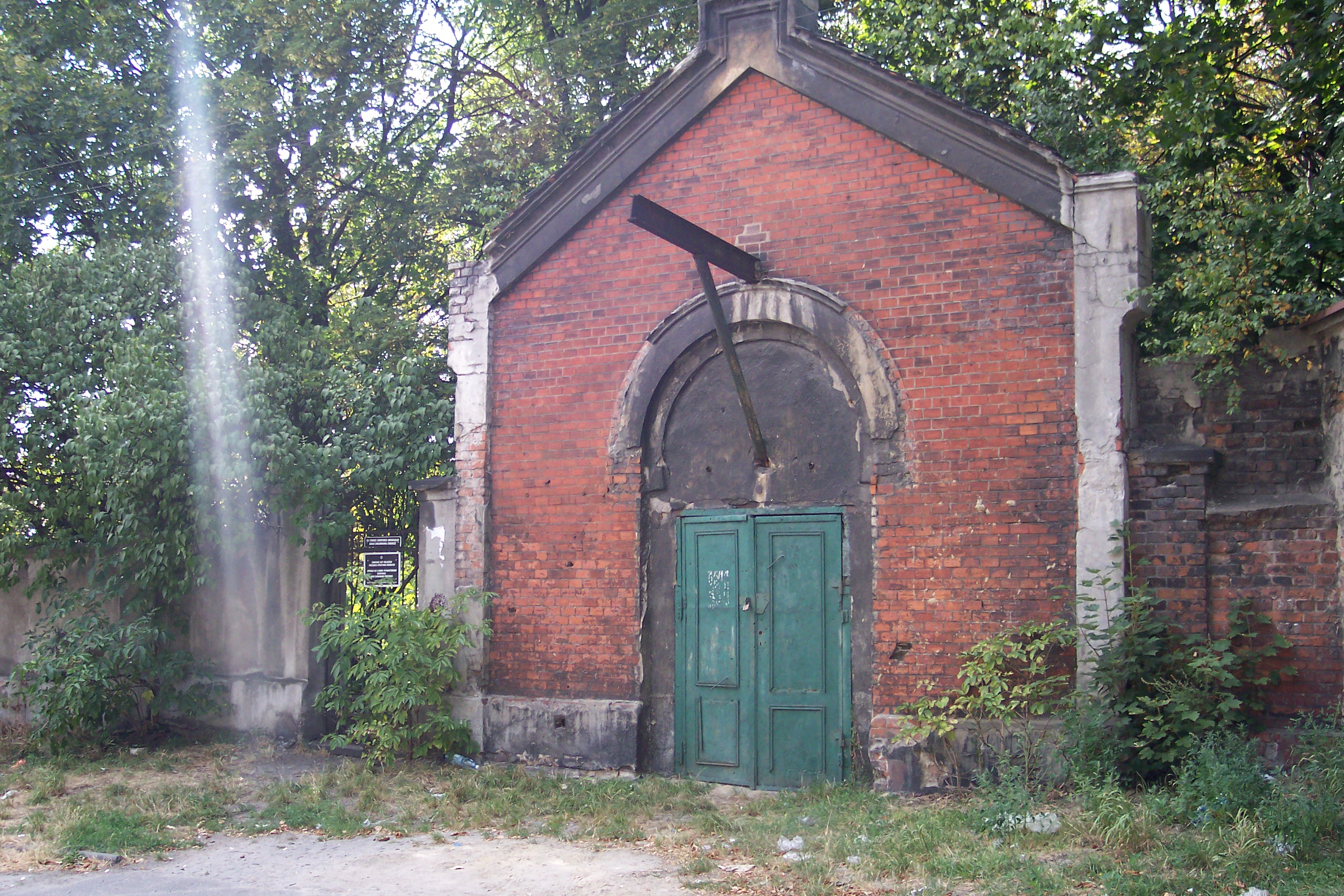 Jewish Cemetary in Gliwice.